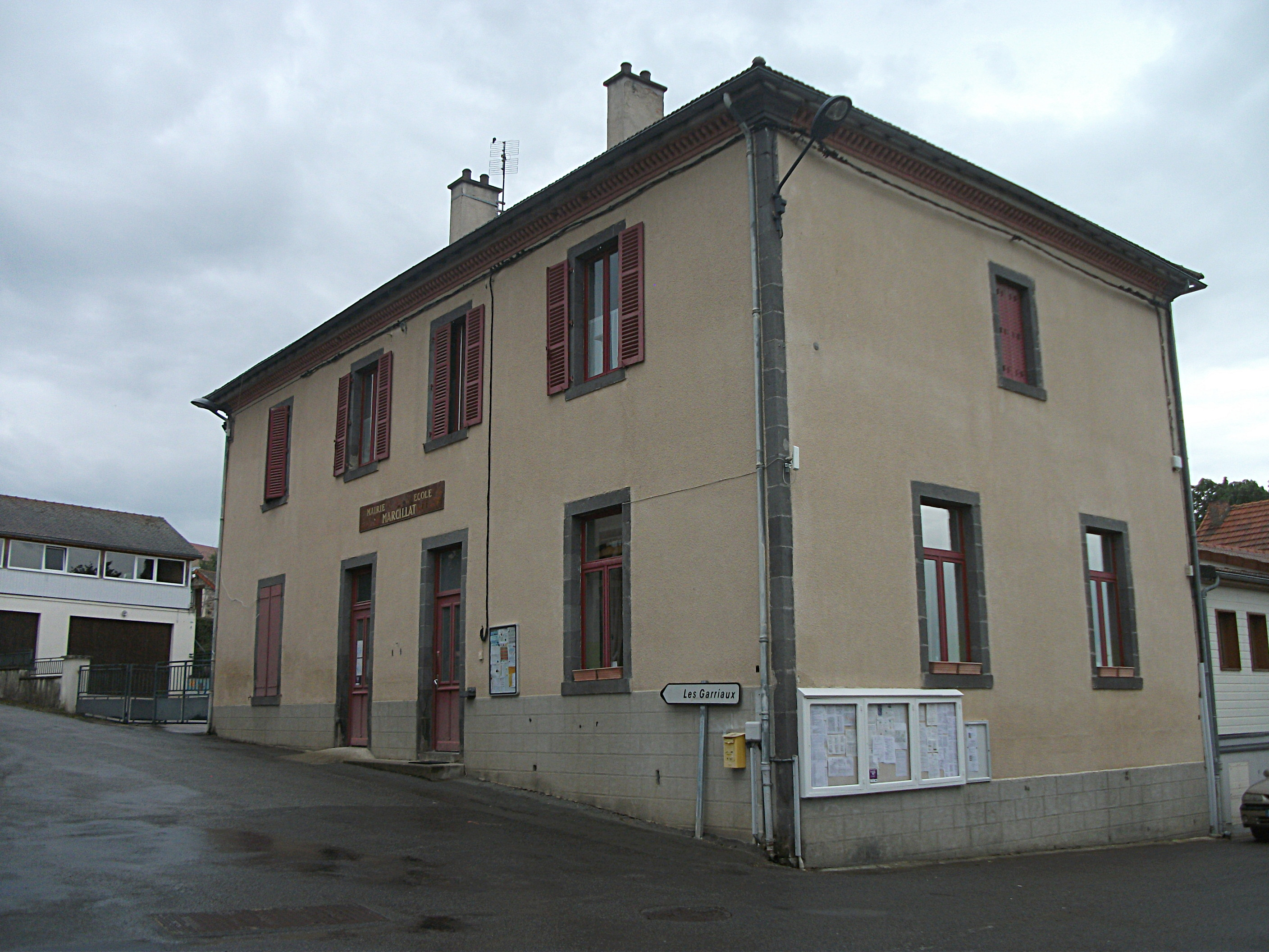 Town hall of Marcillat, Puy-de-Dôme, Auvergne-Rhône-Alpes, France. [18491]